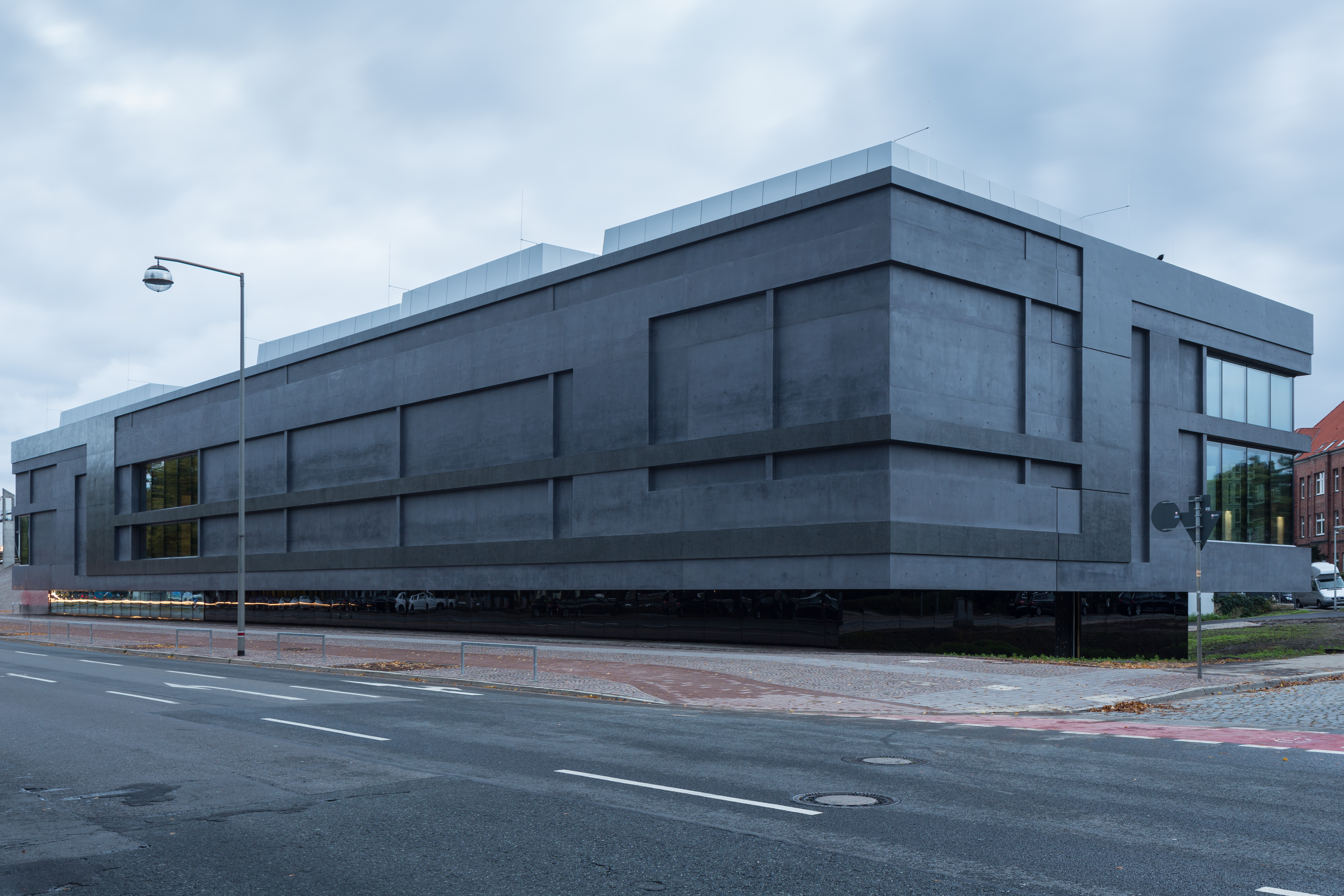 Expansion building of Sprengel Museum Hannover located at Rudolf-von-Bennigsen-Ufer and Auf dem Emmerberge in Suedstadt quarter of Hannover, Germany. The image was taken one day after the opening (September 19, 2015).